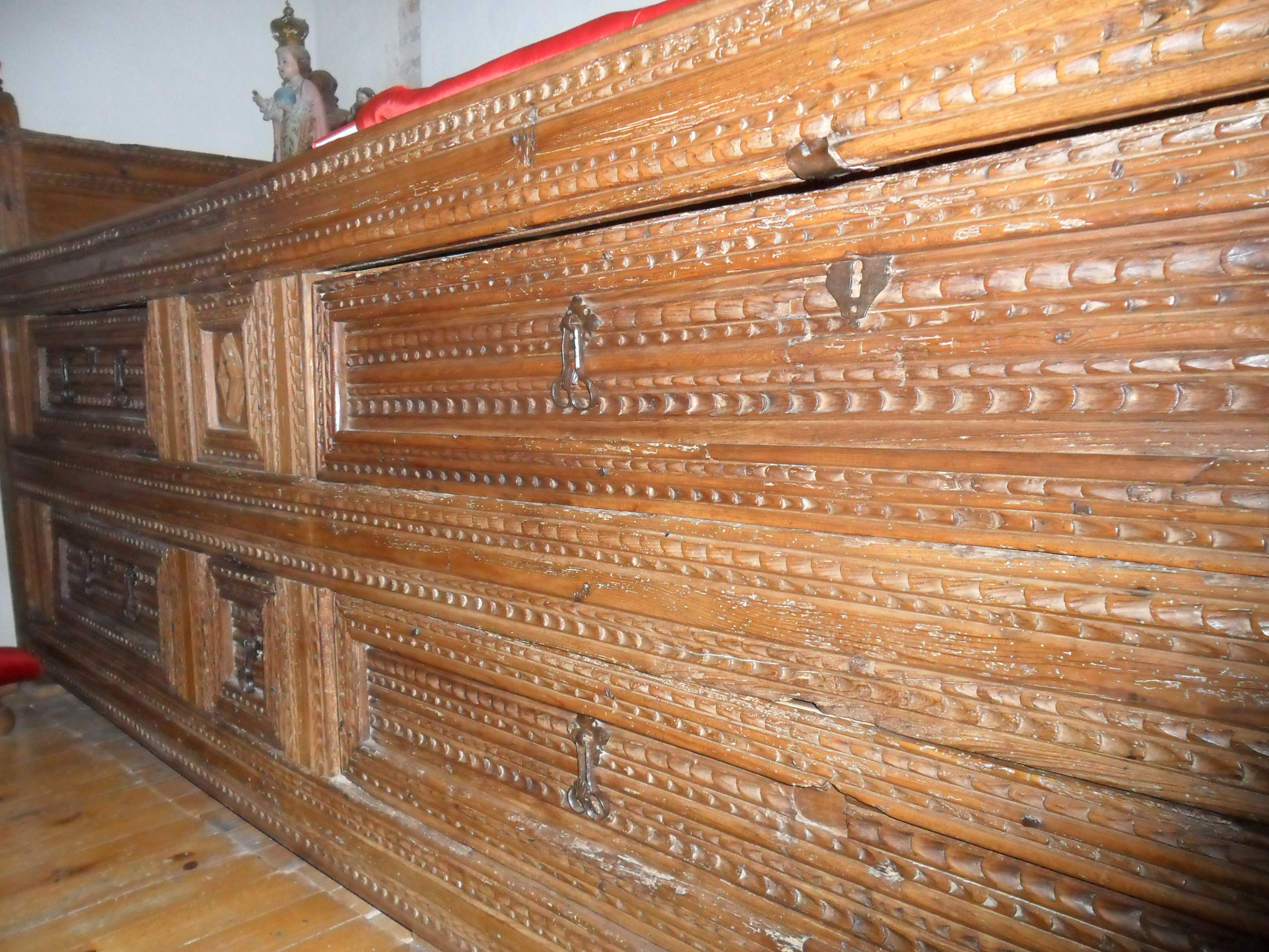 Renaissance wooden carved chest of drawer. Santibáñez de Valcorba, Valladolid.Spain